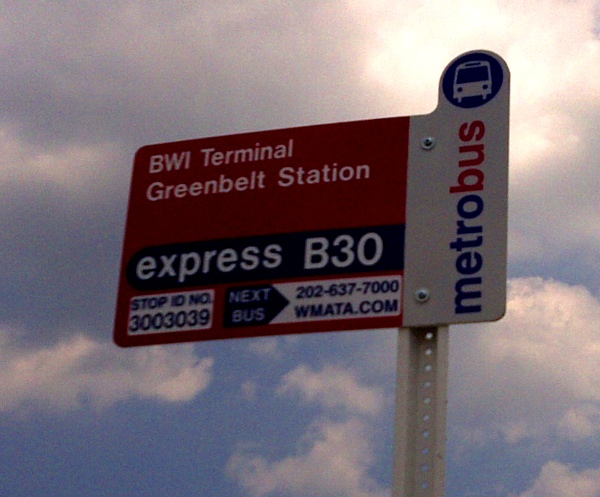 The Washington Metropolitan Area Transit Authority's new Metrobus stop design.